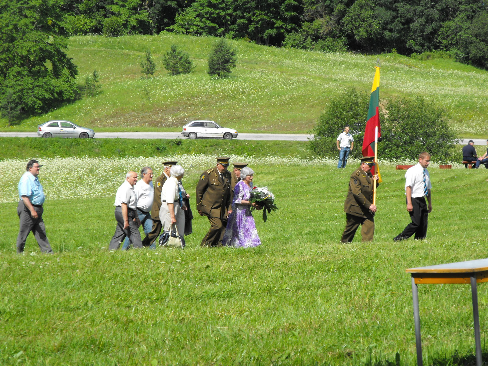 Memorial service on the 65th anniversary of the battles on the Sinimäed hills in 1944, where a number of veterans attended including members of the W:20th Waffen Grenadier Division of the SS (1st Estonian). On the picture: Lithuanian Forest Brother veterans.